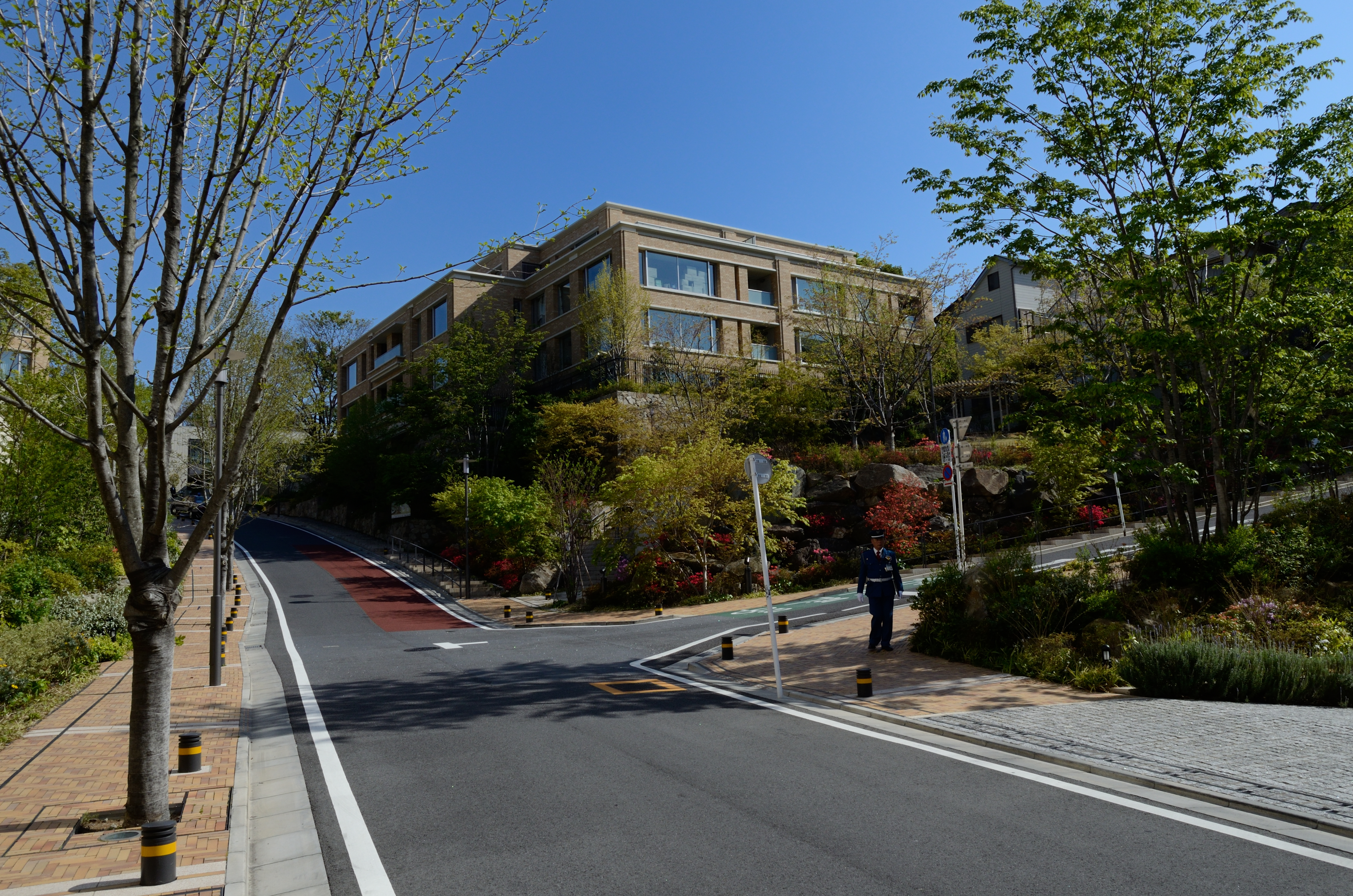 Kita Shinagawa 6Chōme, Shinagawa-ku, Tokyo, Japan